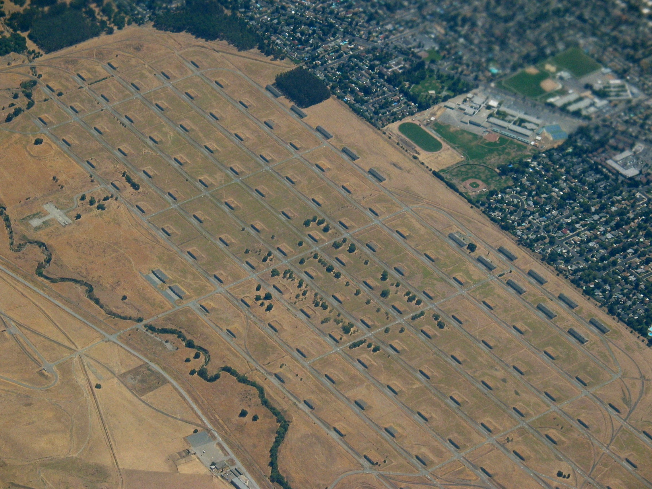 Concord Naval Weapons Station, Concord, CA, USA. Image taken from aboard an intercontinental flight out of SFO.